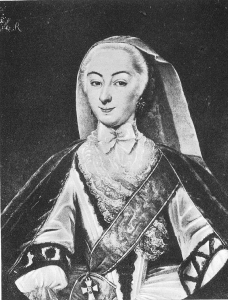 Nicoline Danneskiold-Samsøe, née Rosenkrantz (1721-1771), Danish noblewoman, recipient of l'union parfaite